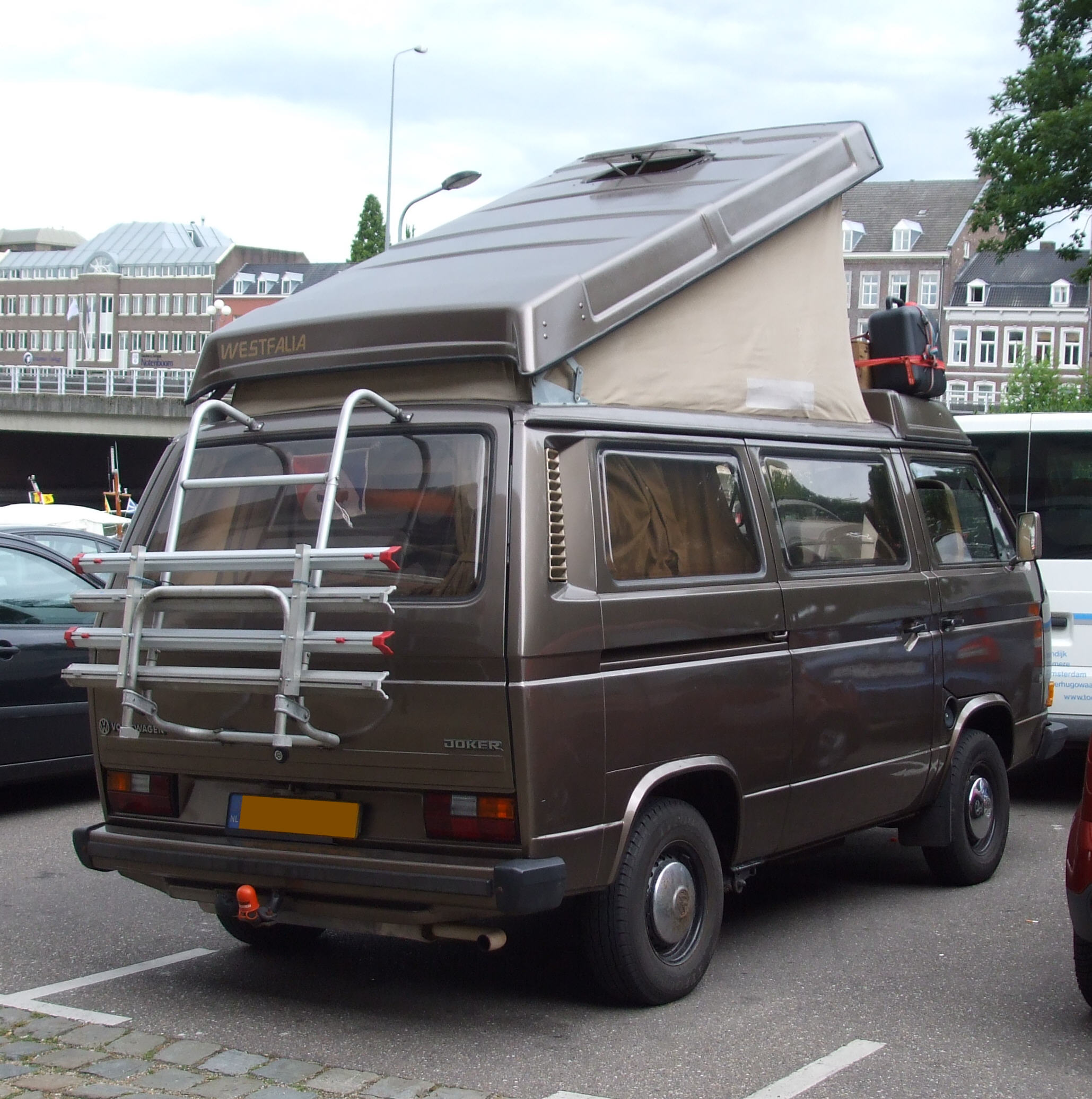 Westfalia camping vehicle «Joker».